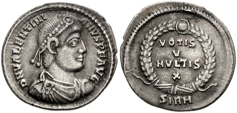 Valentinian I. AD 364-375. AR Siliqua (19mm, 2.17 g, 12h). Sirmium mint. Struck AD 364-367. Pearl-diademed, draped, and cuirassed bust right; VOTIS/ V/ MVLTIS/ X in four lines within wreath; SIRM. RIC IX 2; RSC 79a. VF, toned. From the Gordon S. Parry Collection.